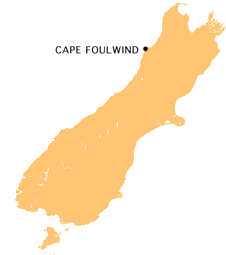 Location map of Cape Foulwind, New Zealand